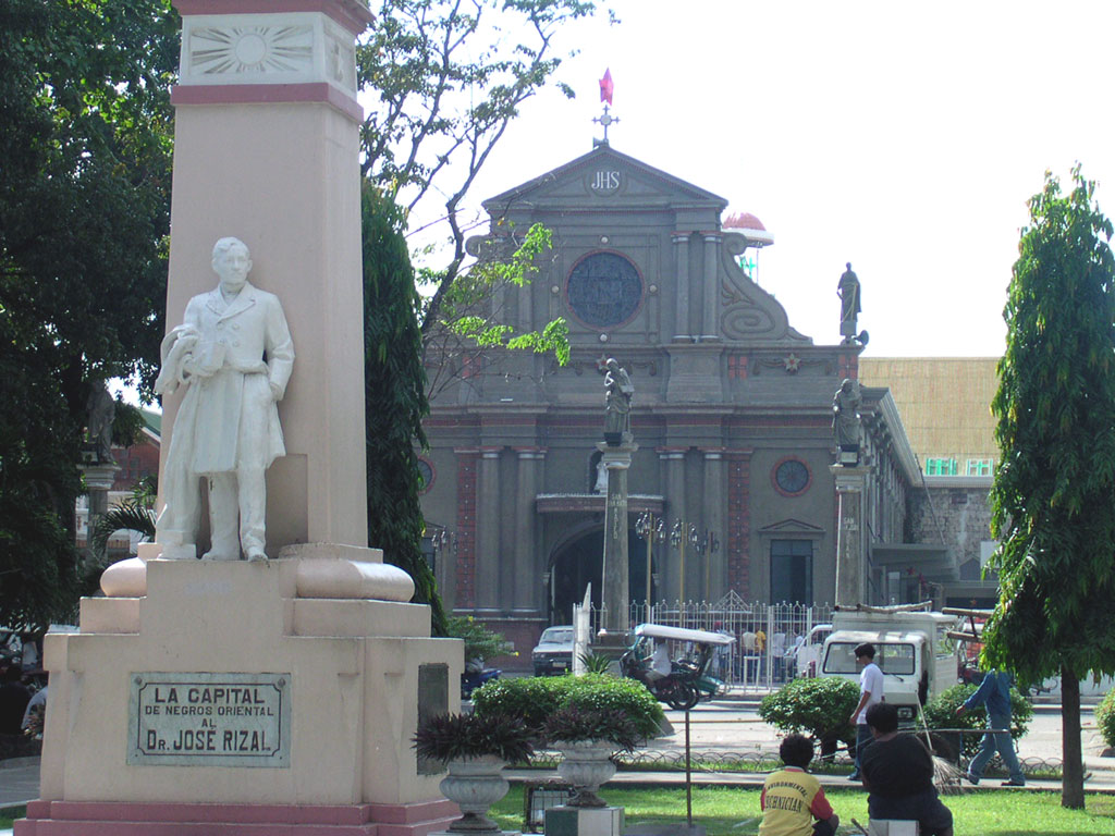 Dumaguete Cathedral of Saint Catherine of Alexandria in Dumaguete City, with a monument to José Rizal in Quezon Park in the foreground.